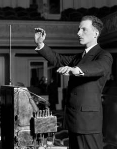 Lew Termen demonstrating Termenvox - cropped version